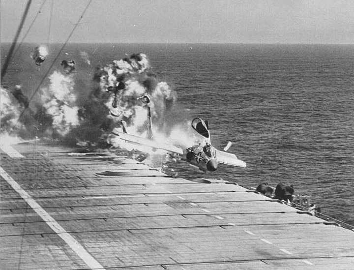 A U.S. Navy Vought F7U-3 Cutlass (BuNo 129595) of Fighter Squadron (VF-124) Stingrays suffers ramp strike on landing aboard the aircraft carrier USS Hancock (CVA-19) during carrier qualifications off of the California coast on 14 July 1955. Disintegrating airframe is seen spinning off to the port side. The pilot LCDR Jay Alkire, USNR, executive officer of VF-124, was killed when the airframe sank, still strapped into the ejection seat. Also killed were two boatswain's mates and one photographers mate, in the port catwalk by burning fuel.